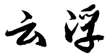 Yunfu in Chinese